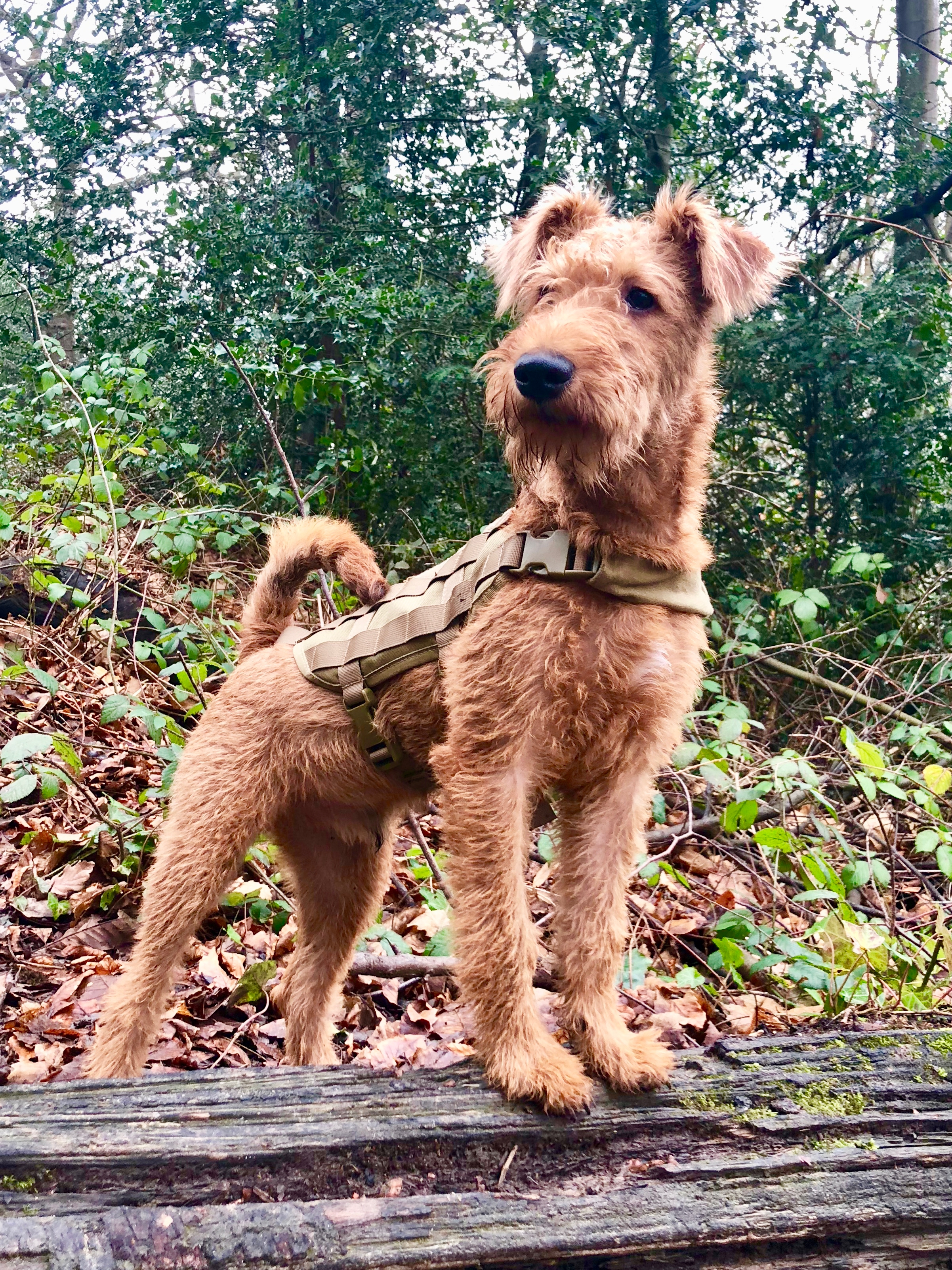 Irish Terrier - 6 months old - in Sydenham Hill Woods, London 2018